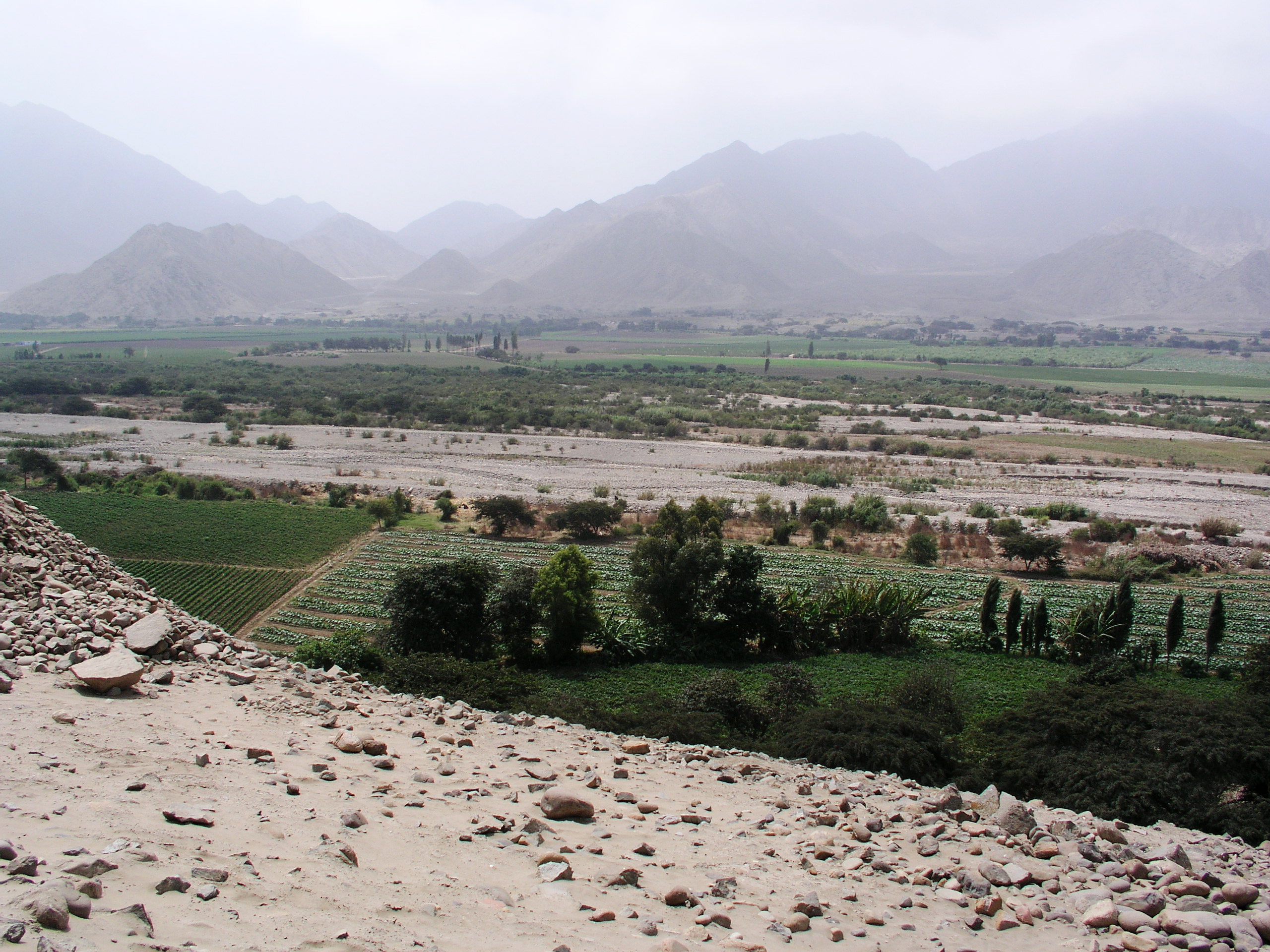 Caral, Valle de Supe, Region Lima, Peru. The valley of river Supe is dry during most part of the year and gives water for a shorter period of a few months.